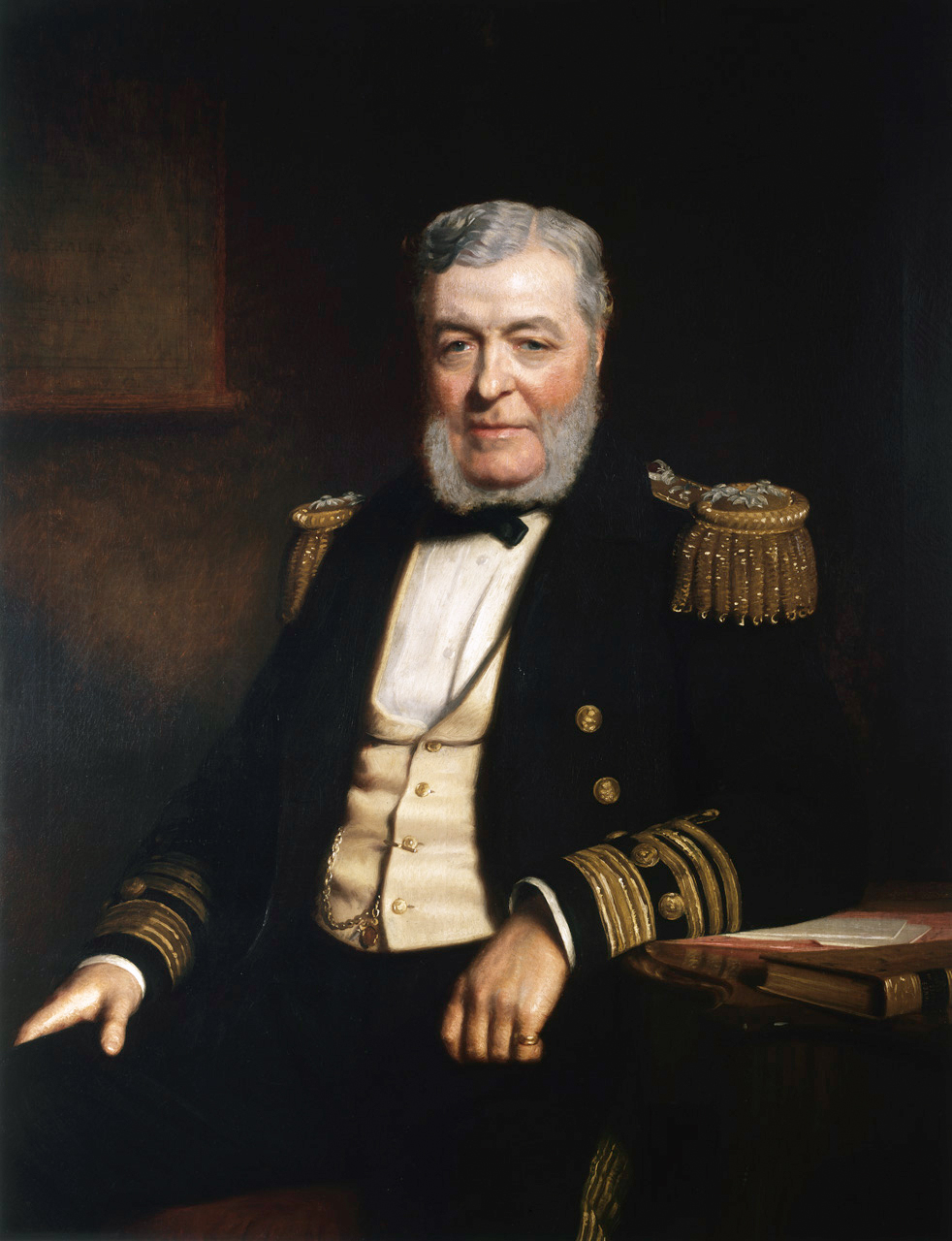 "Admiral John Lort Stokes, 1812-1885" Courtesy of the National Maritime Museum, Greenwich, London.